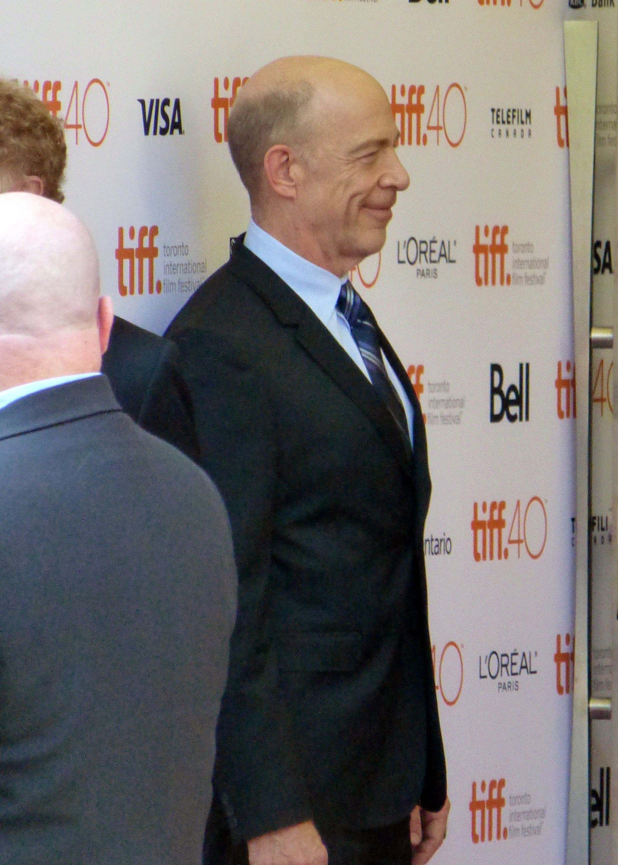 J.K Simmons at The Meddler, 2015 Toronto Film Festival.